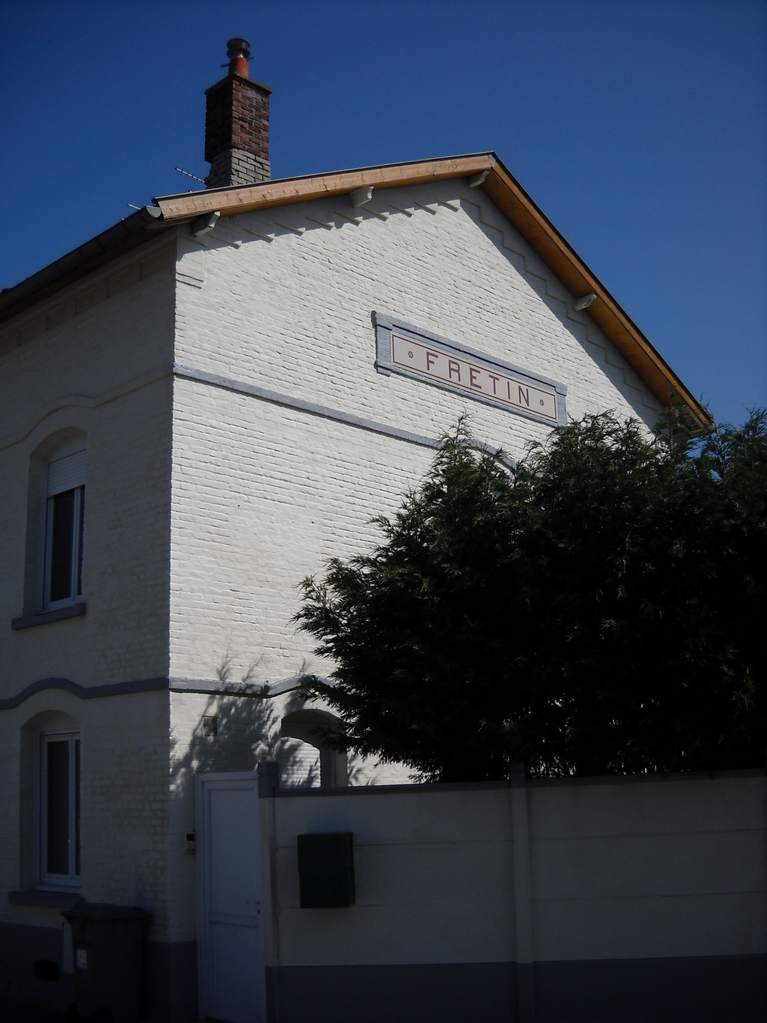 The train station of Fretin, Nord, France.